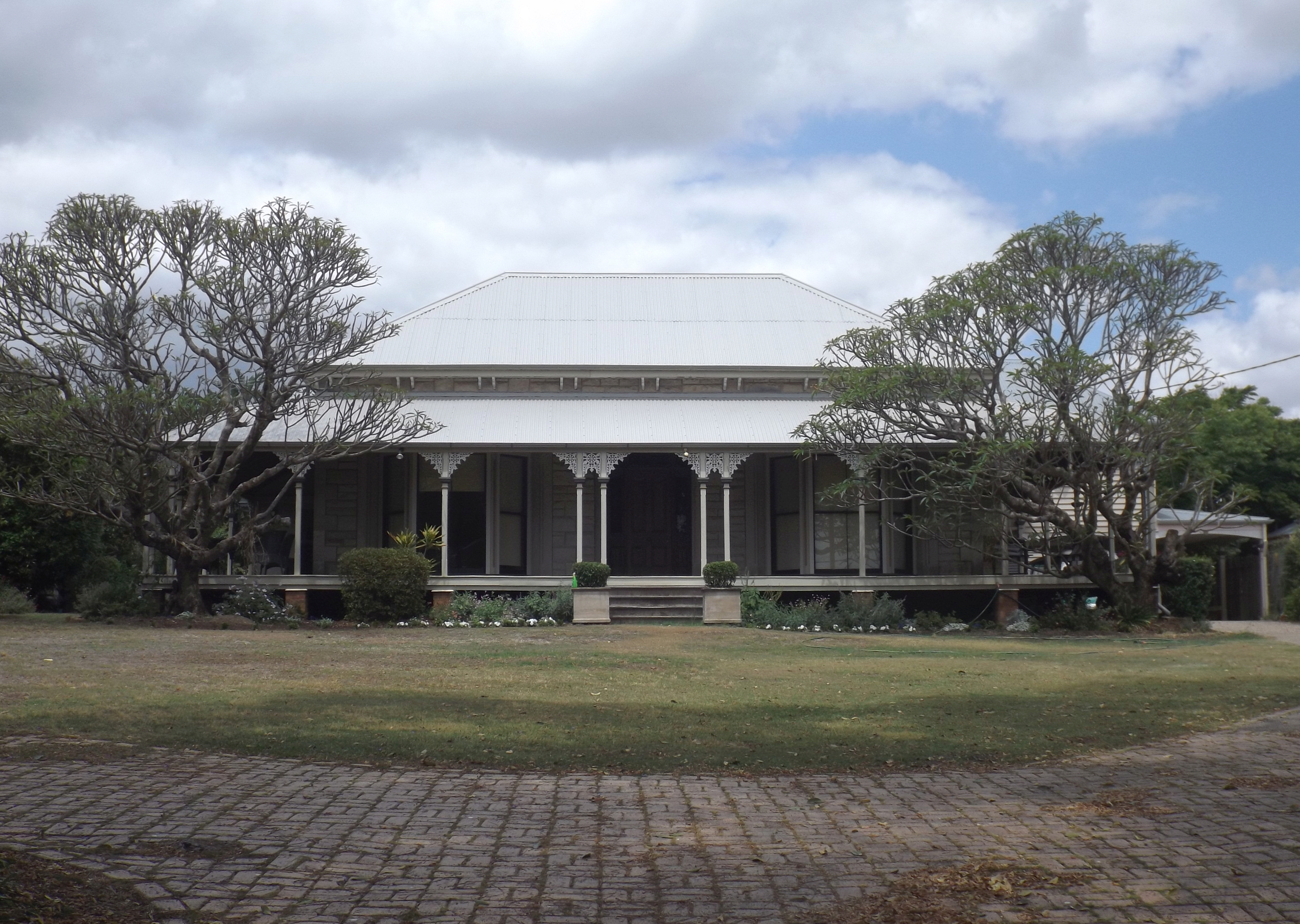 Photo of Kyeewa at East Ipswich, Ipswich, Queensland, Australia.